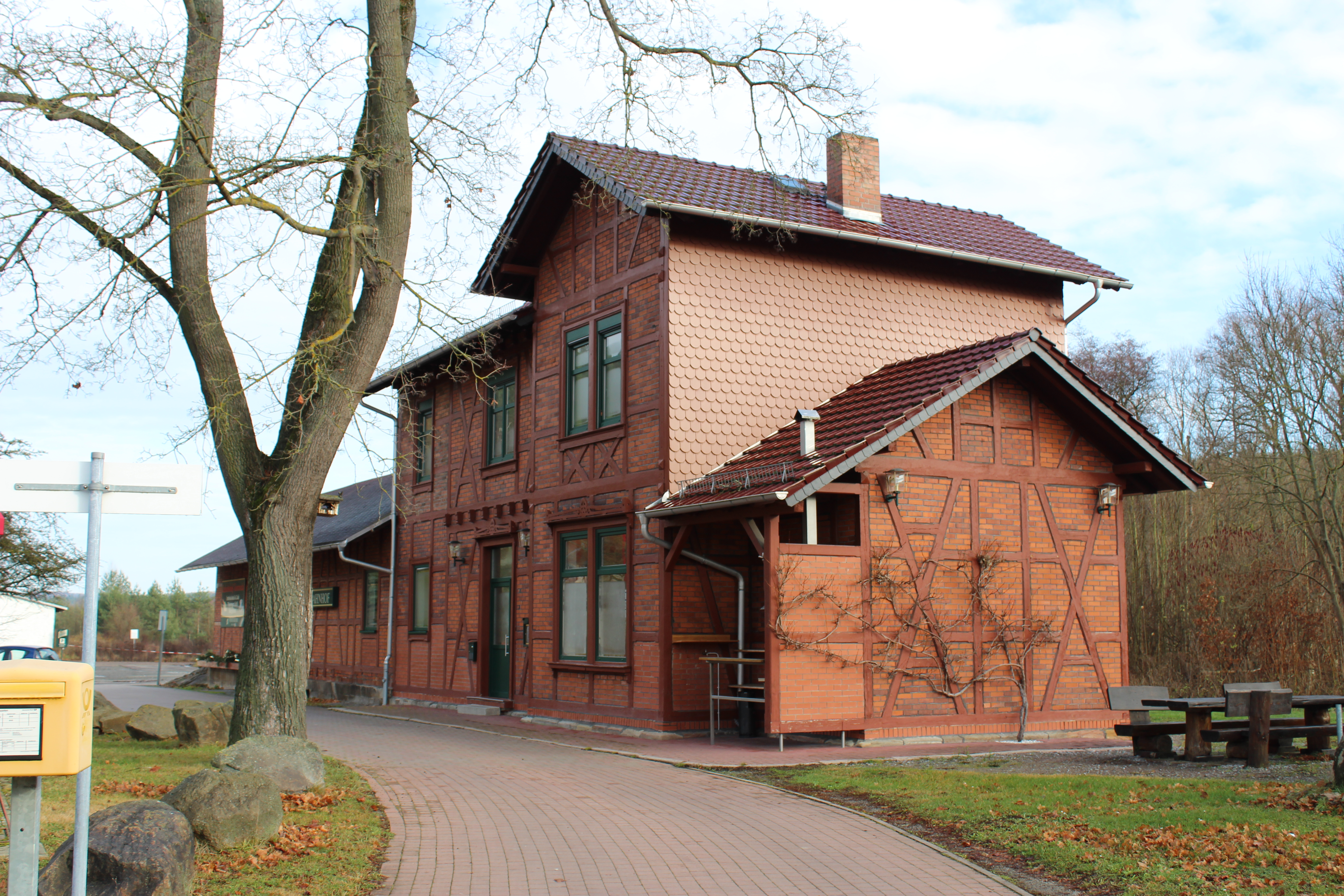 train station Tannroda, station building